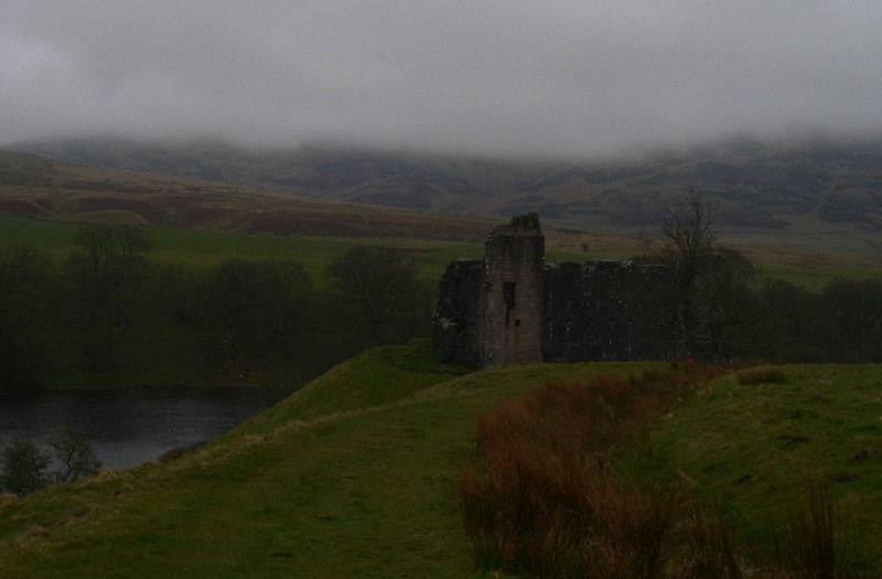 Morton Castle, Dumfries and Galloway, Scotland